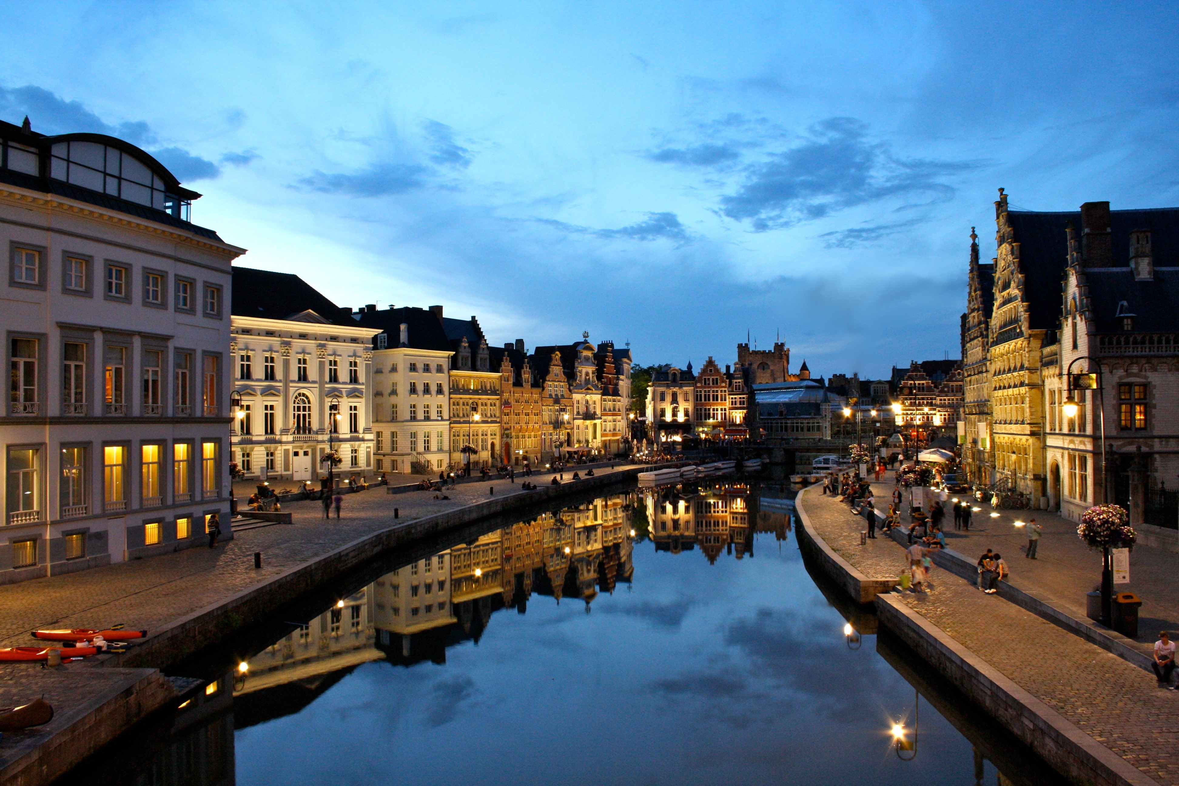 Dusk in Ghent, Graslei